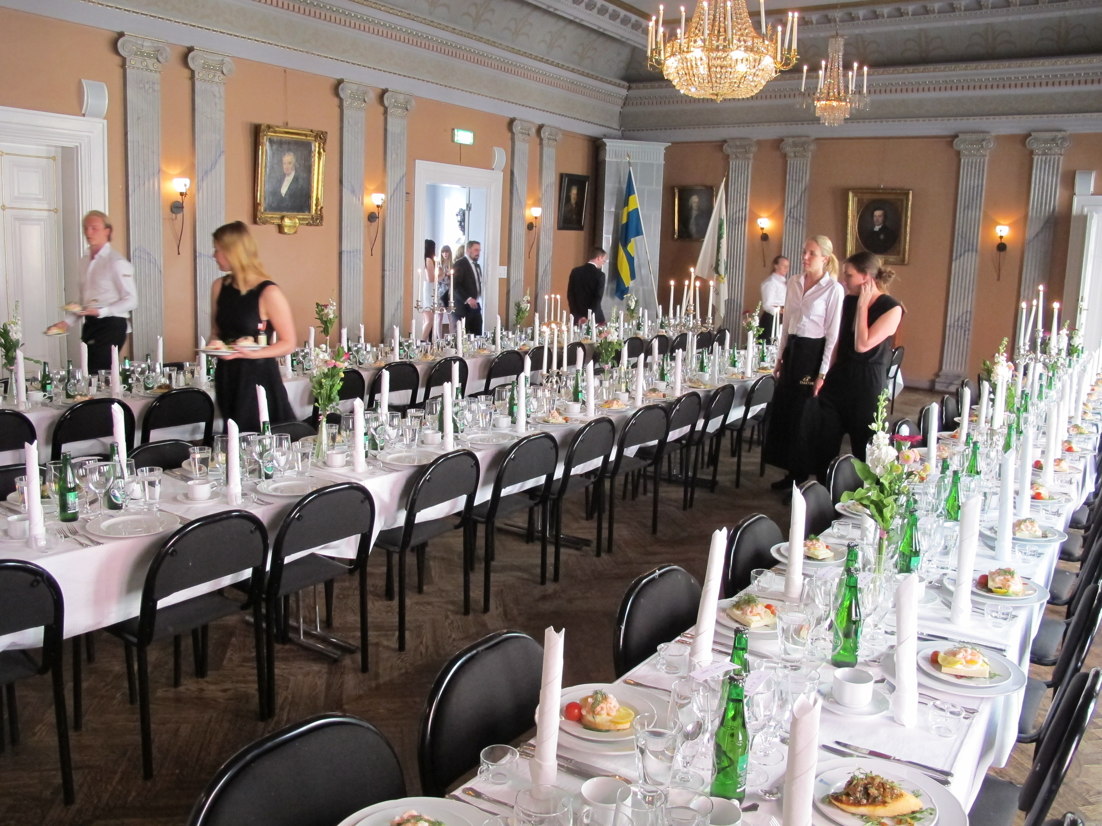 The old hall at Stockholms Nation, Uppsala